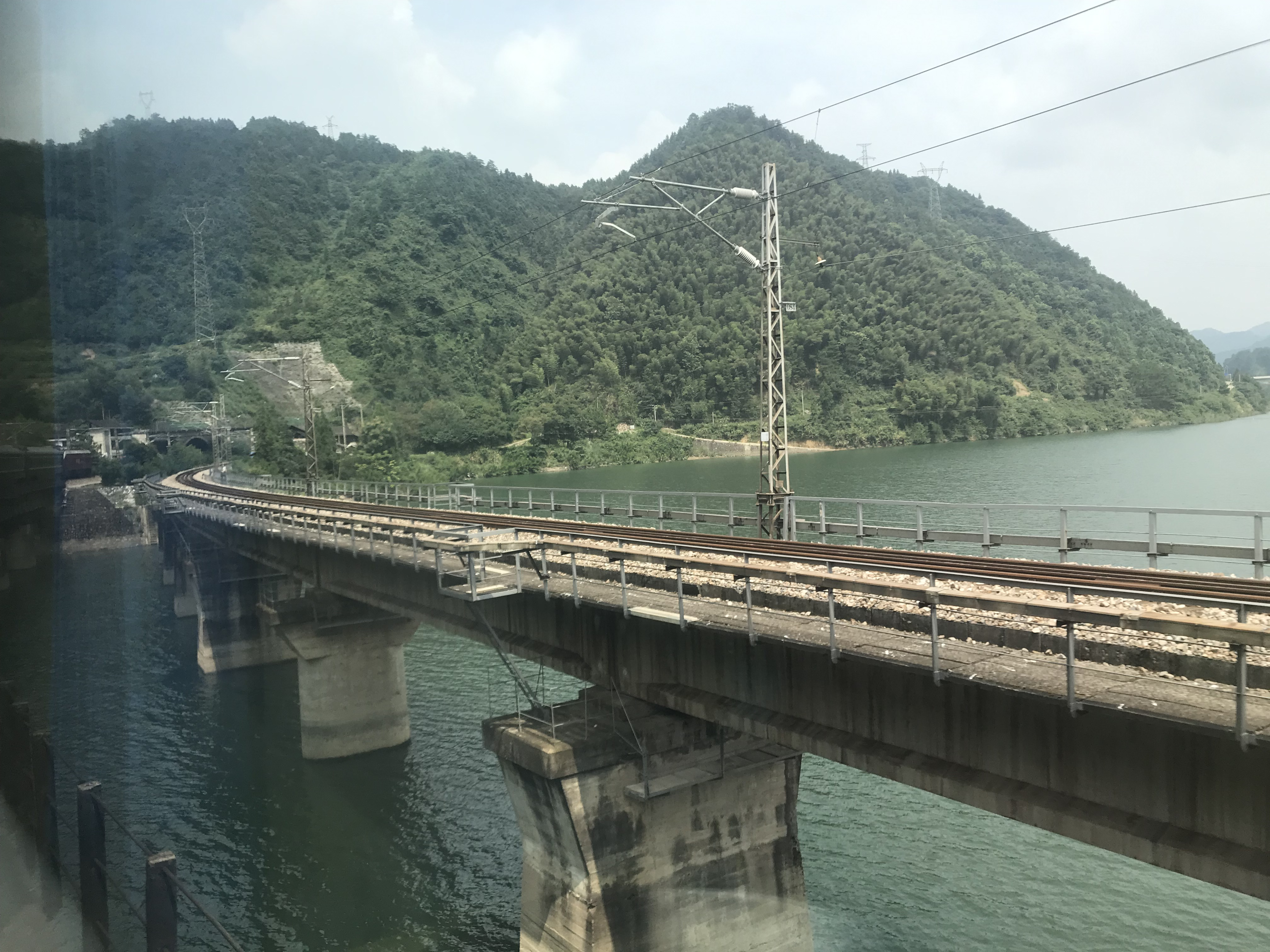 201908 Shanghai-Kunming Railway Zi River Bridge in Pingkou, Anhua